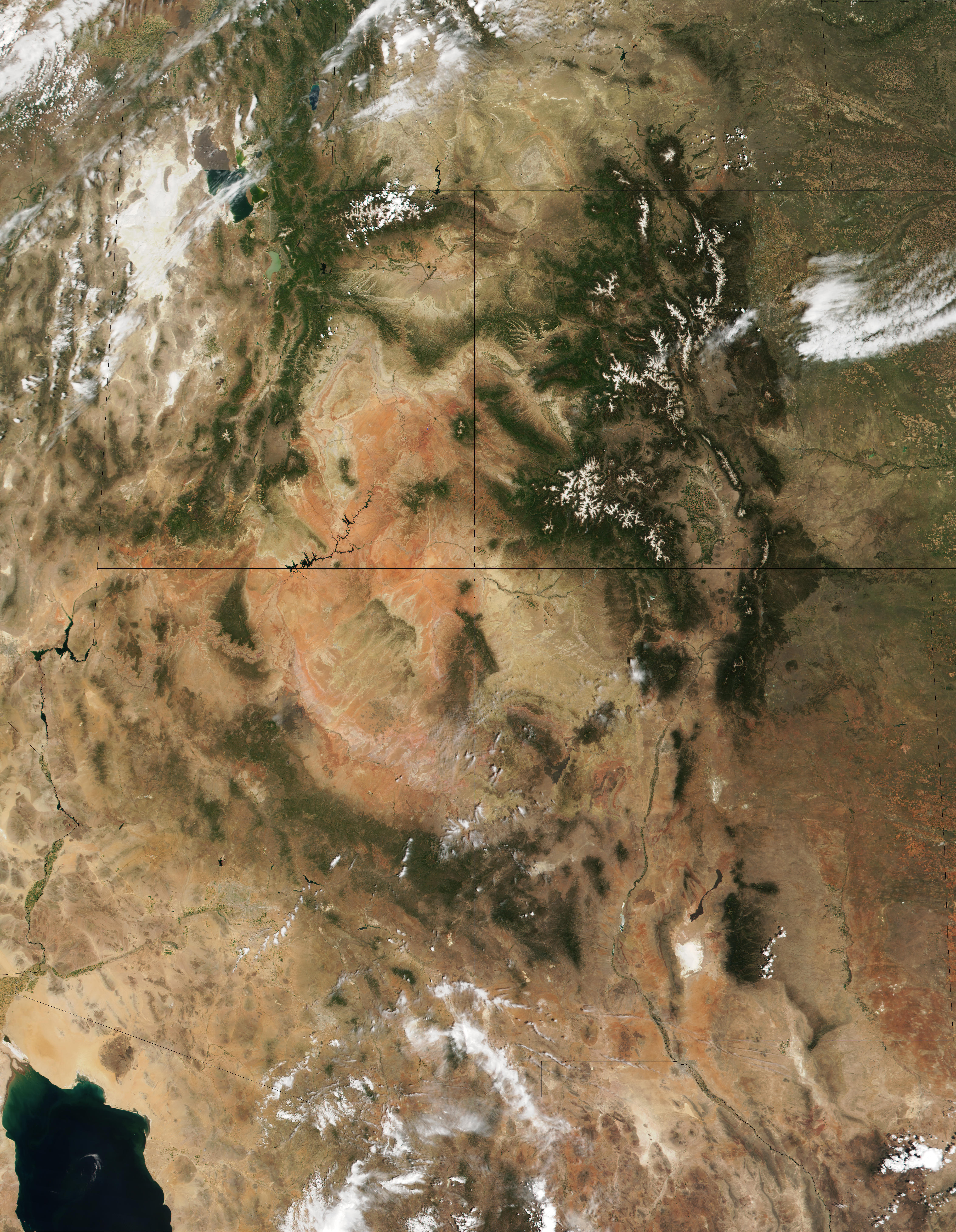 This MODIS true-color image is centered on the Four Corners region in the Southwest United States. Recognizable features include the forest-covered Rocky Mountains, which still have snow-covered peaks, running through Colorado and into New Mexico. To the west of Colorado is Utah, where the Great Salt Lake can be seen at the upper left. The Colorado Plateau, with its salmon-colored rocks, extends south from Utah into Arizona. The Grand Canyon of the Colorado River cuts westward through the mountains in northern Arizona.